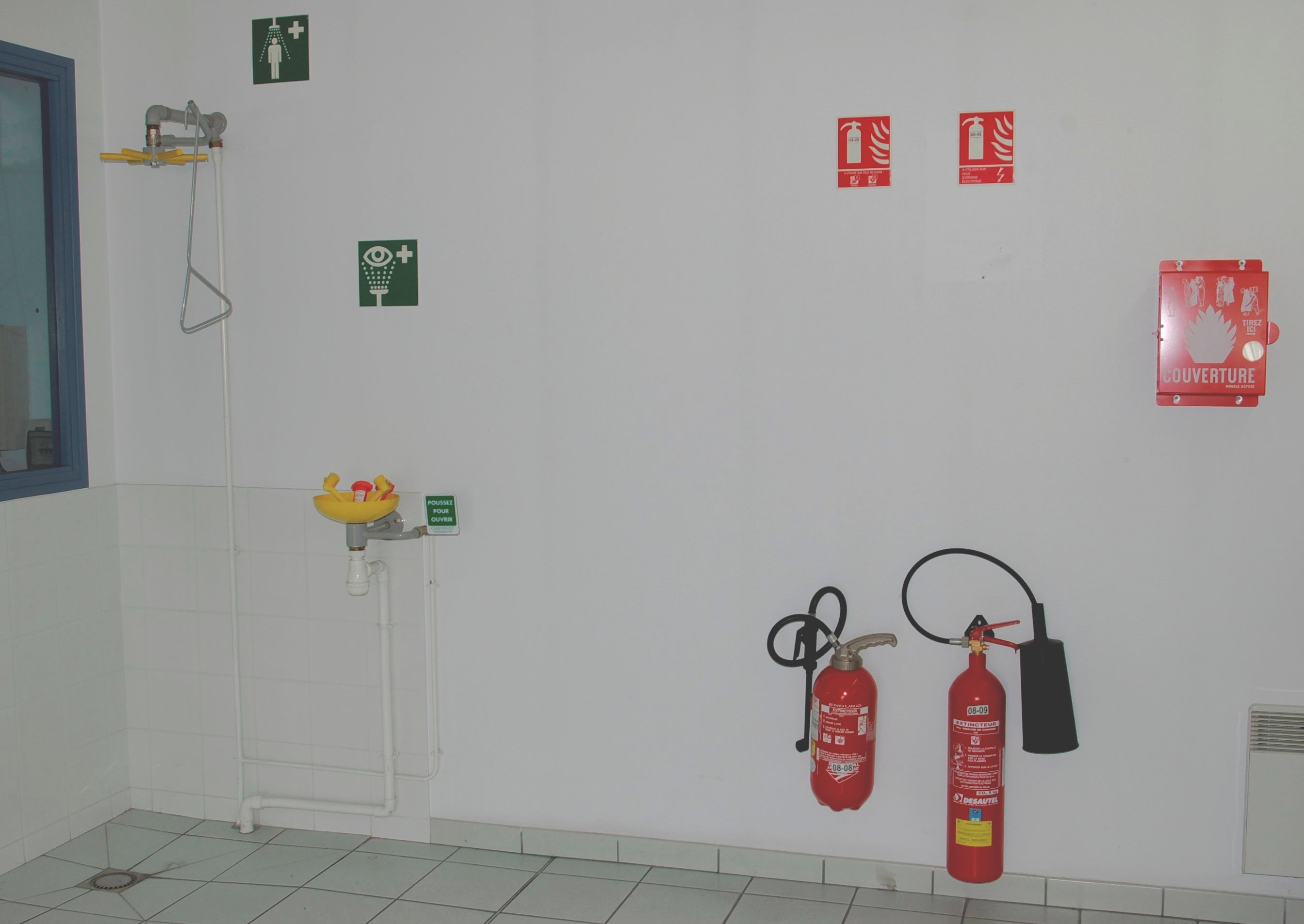 Safety equipment in a lab. From left to right, are: safety shower; wall-mounted and portable eyewashs; portable water and CO2 fire extinguishers; fire blanket, with the corresponding pictograms.